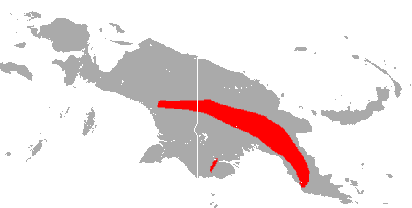 Fly River Roundleaf Bat (Hipposideros muscinus) range